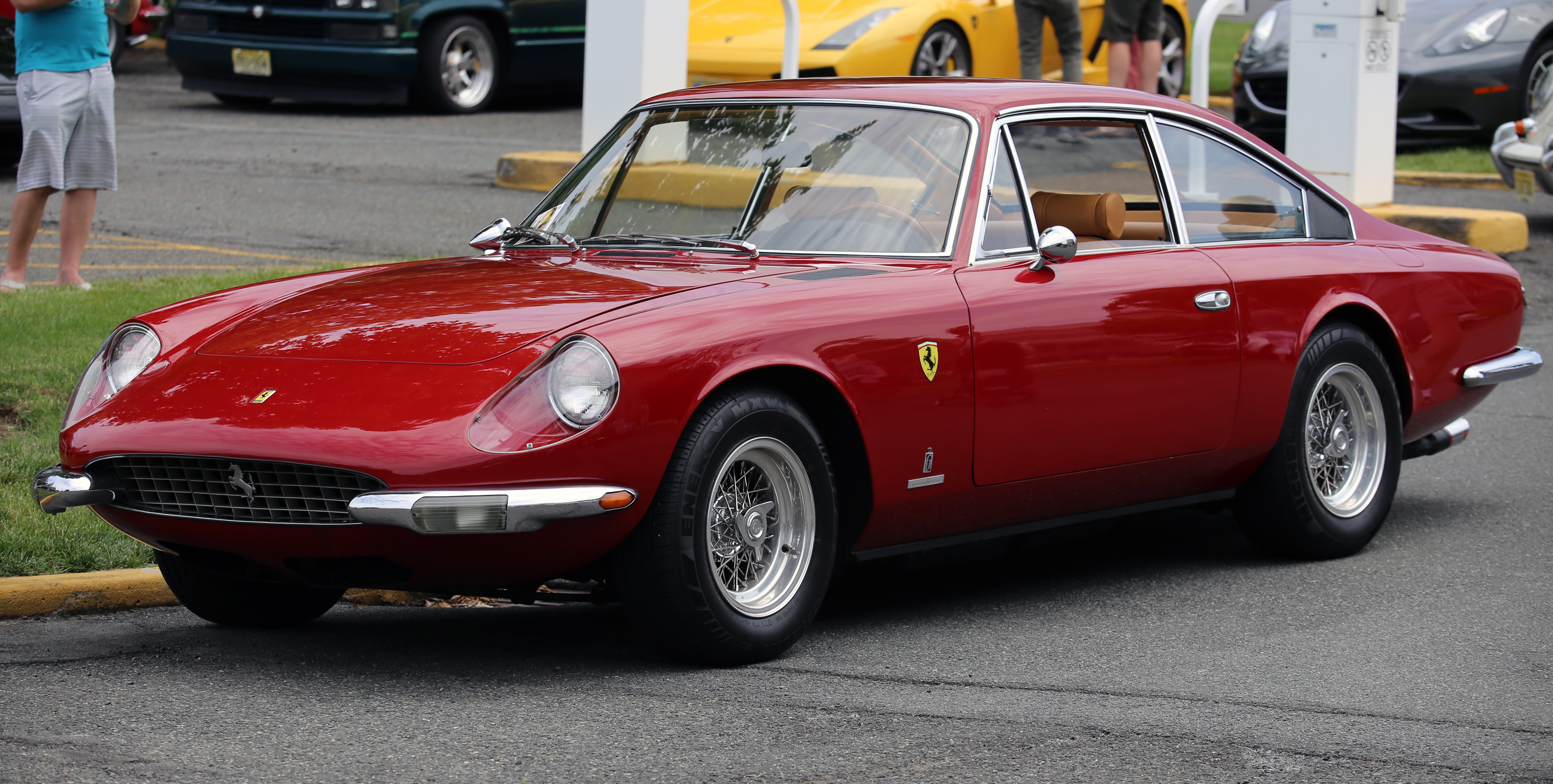 Front left view of a 1968 Ferrari 365 GT 2+2.